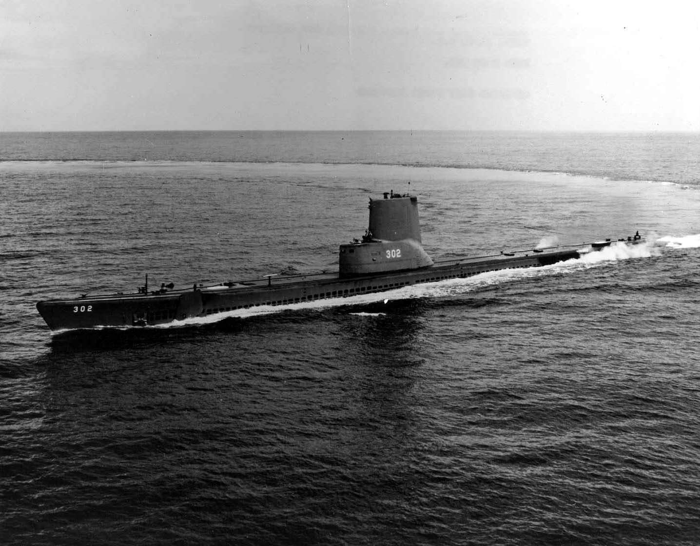 USS_Sabalo; Sabalo (SS-302) cuts a wide swath through the Pacific after conversion to a "Fleet Snorkel" type at the Pearl Harbor Naval Shipyard, post November 1952. U.S. Navy photo courtesy of web site.